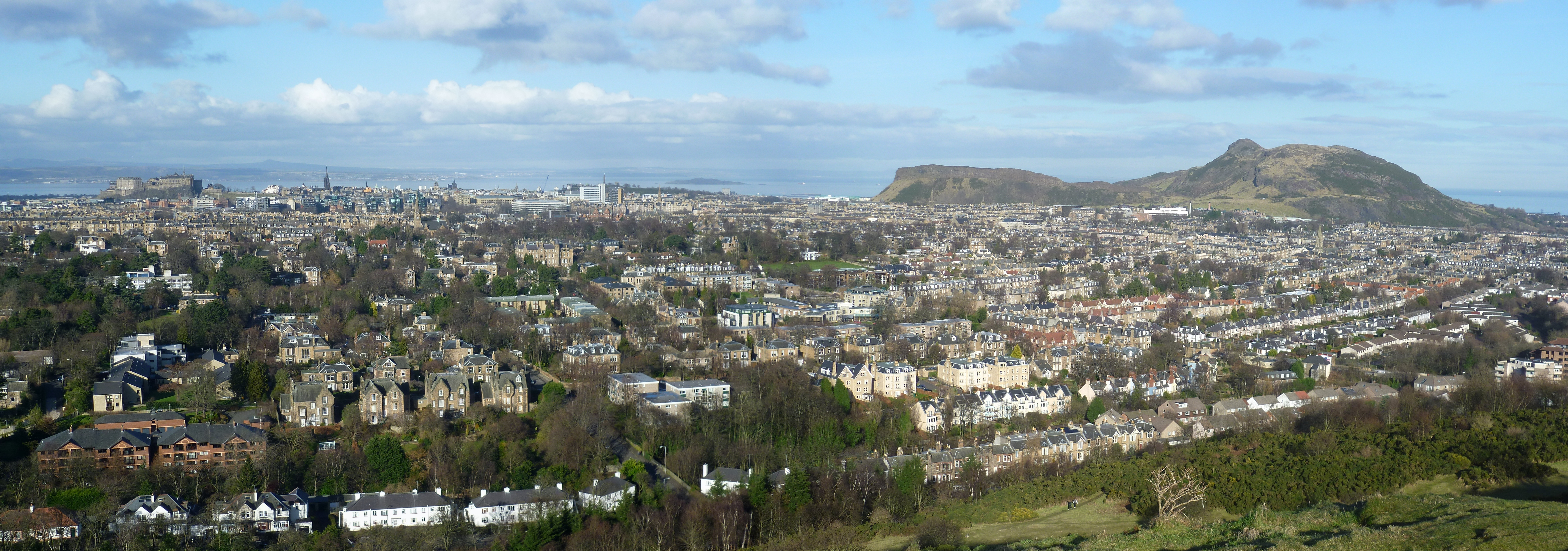 View of Edinburgh from Blackford Hill